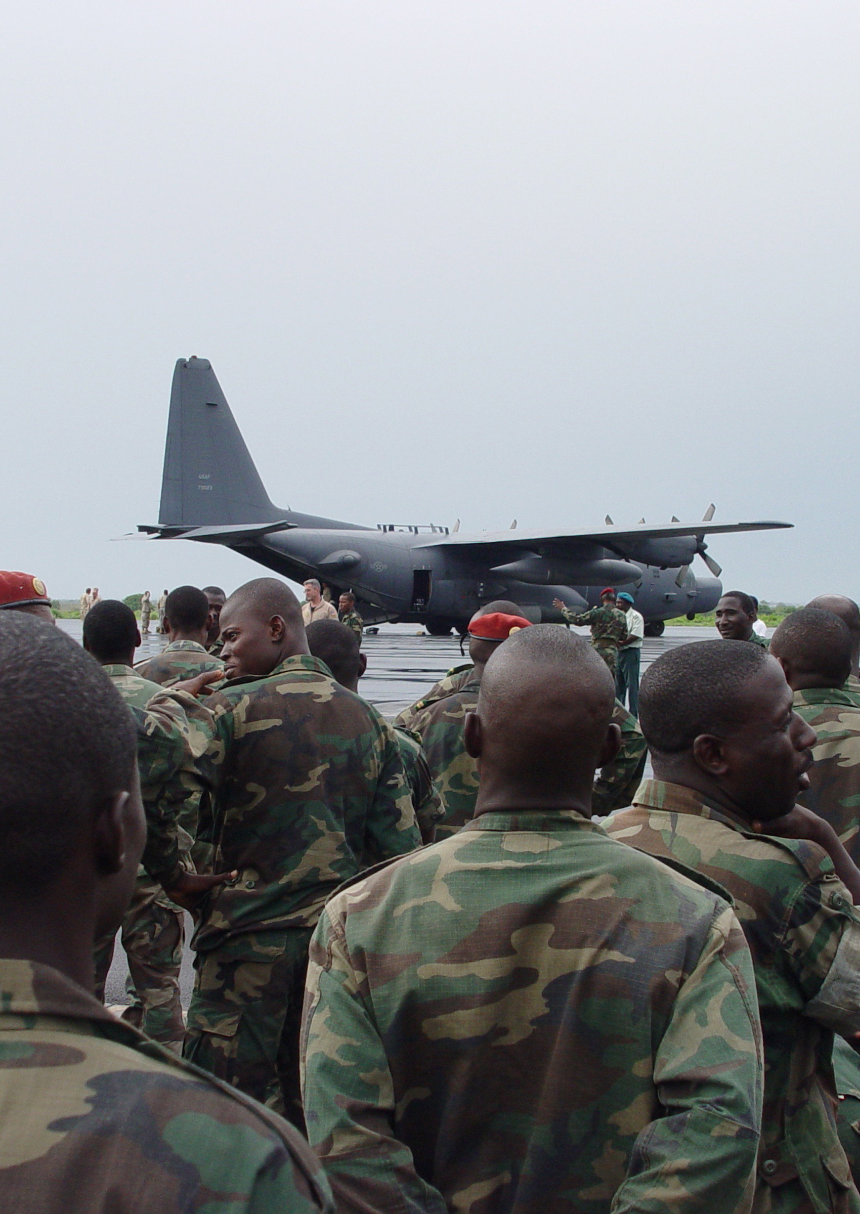 Malian parachutists gather in preparation to board a 352nd Special Operations Group MC-130H Combat Talon II, prior to the Friendship Drop June 14, which marked the last training event of the joint combined exchange training in Africa.